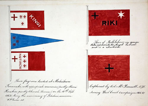 From .nz: The three flags depicted by W.F. Gordon on the left are those used by the King Movement to mark the appointment of Potatau Te Wherowhero as the first Maori King in 1857. Gordon drew the flags when they were flown at Mataitawa, Taranaki on the anniversary of Potatau's accession in 1862. The two flags depicted on the right are believed to have been used by supporters of the Pai Marire faith in the 1860s. Collection of Museum of New Zealand Te Papa Tongarewa Reference: B.37907 W.F. Gordon, 3 Kingi flags, and two others